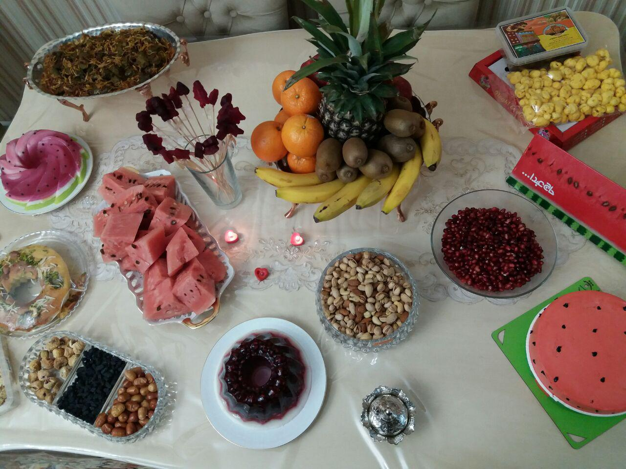 Yalda Night in Tabriz